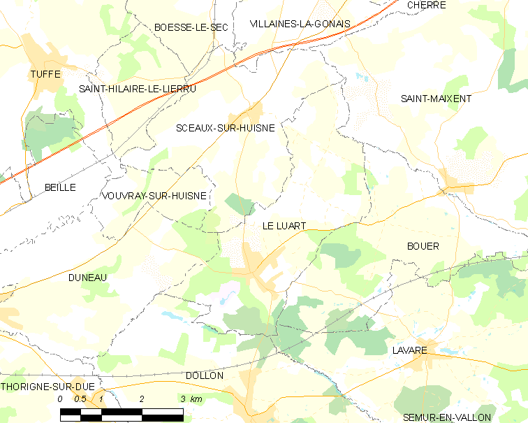 Map of French municipality